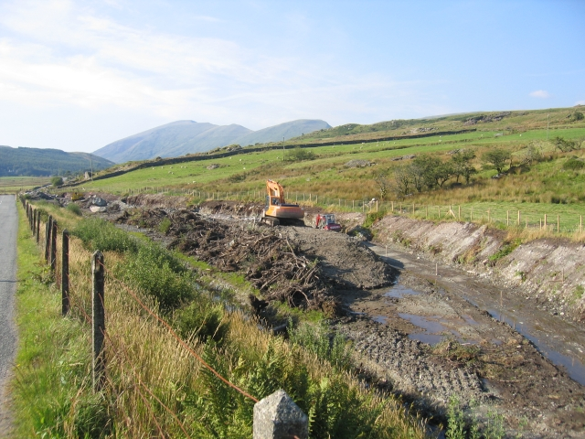 Pitt's Head bridge. With the work to re-instate the Welsh Highland Railway from Rhyd Ddu to Porthmadog well under way as the formation curves out to pass under Pitt's Head bridge. The view is looking North towards Rhyd Ddu in the distance.